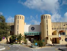 University of Malta (not MCAST)